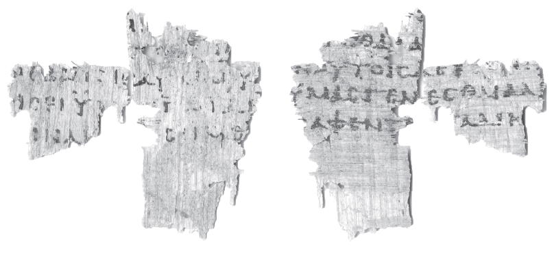 P.Oxy. LXXXIII 5345, comprising Mark I 7–9, 16–18; published in The Oxyrhynchus Papyri Volume LXXXIII (2018). Also known as "First Century Mark".